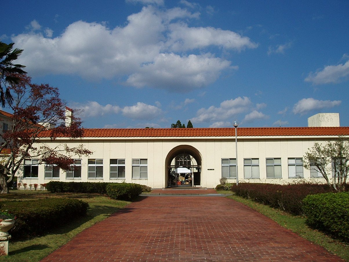 The main building of Saniku Gakuin College located in Otaki, Chiba, Japan.